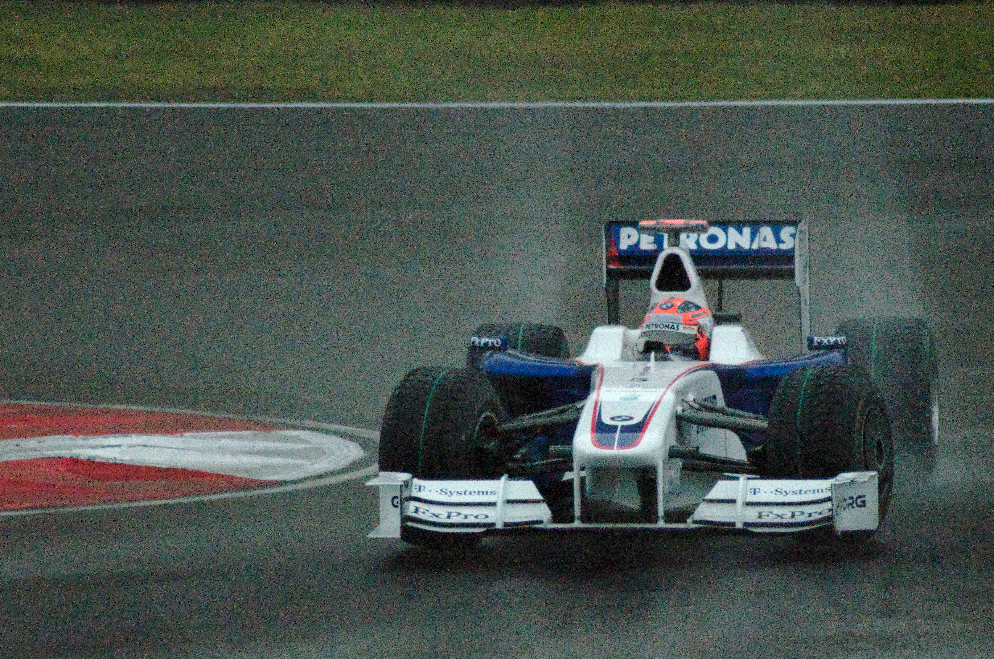 2009 Formula 1 Grand Prix of China - Shanghai Circuit